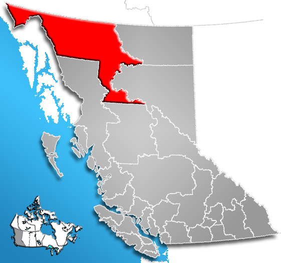 Location of Stikine Region, British Columbia